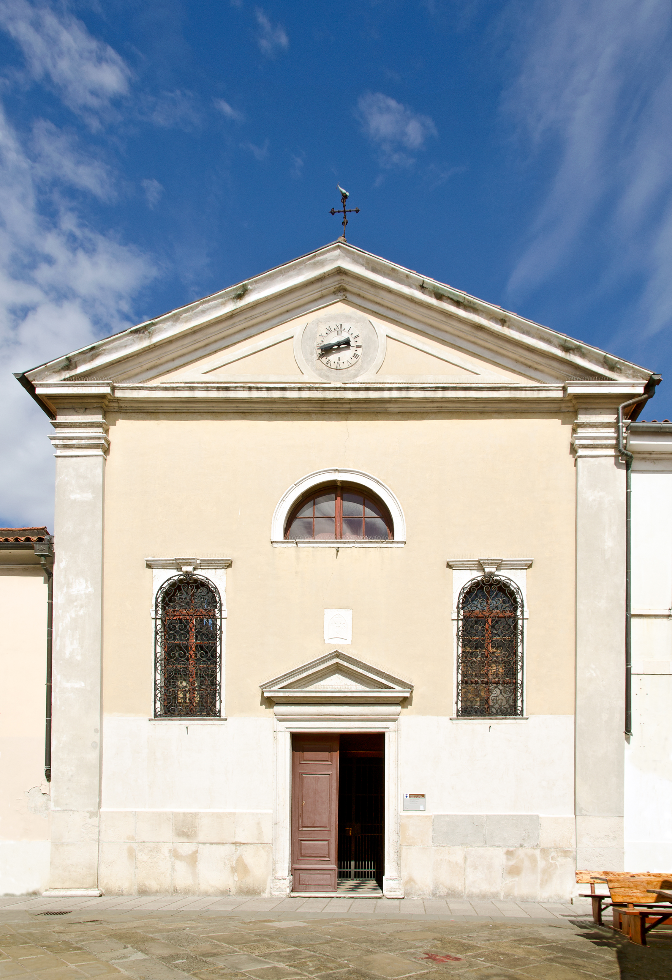 Koper (Slovenia), Church of St. Bassa